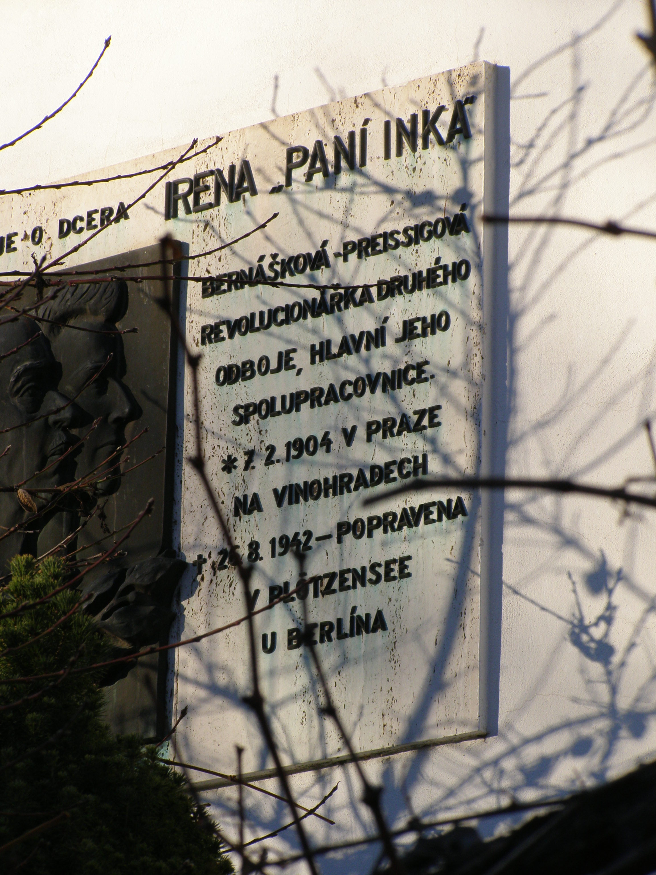 The right half of memorial plaque dedicated to Vojtěch Preissig (* 1873 - † 1944) and his daughter Irena (nickname "Inka") Bernášková (* 1904 - † 1942). The memorial plaque is placed on the house at Jihovýchodní street VIII 944/11, 141 00 Praha - Záběhlice, Czech Republic. Vojtěch Preissig was the Czech graphic artist, typographer, painter, illustrator, and participant in anti-Austrian resistance movement as well as the anti-Nazi resistance movement. For protectorate he established a illegal magazine "V boj". His daughter "Inka" , Czech journalist and anti-Nazi participant, helped him during extradition of that magazin.